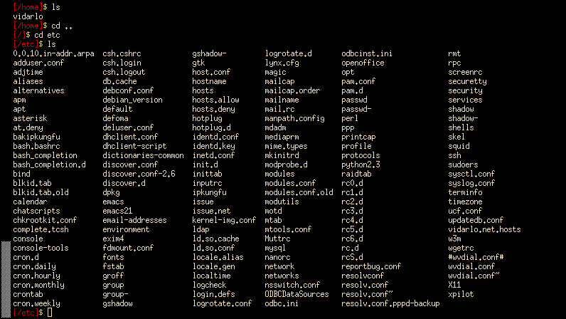 A screenshot of an Xterm showing the content of /etc on a system, using the bash shell.